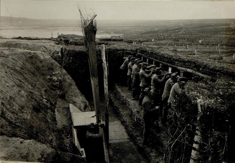 Periskop im Schützengraben in Podhajce